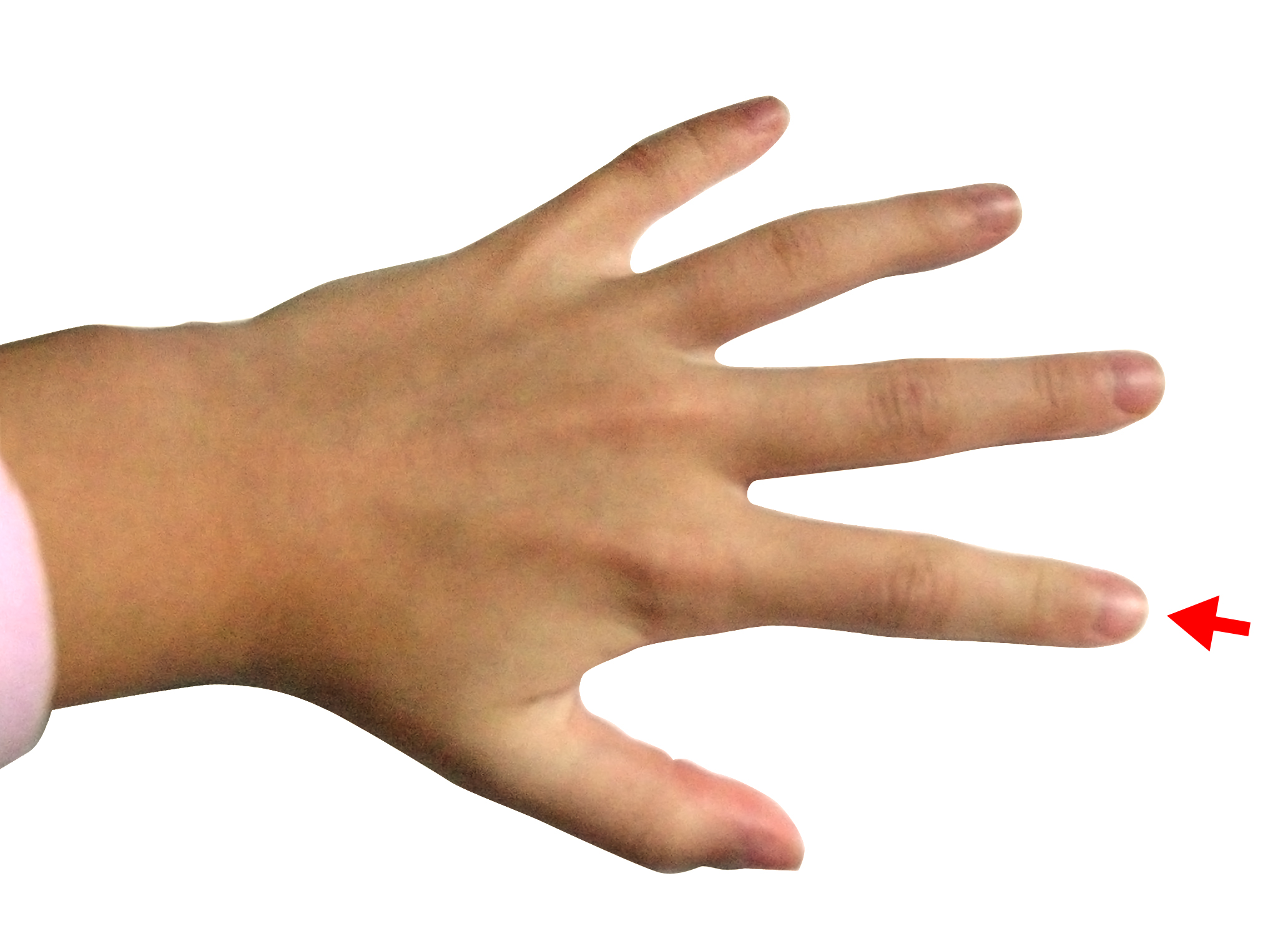 Hand - Index finger